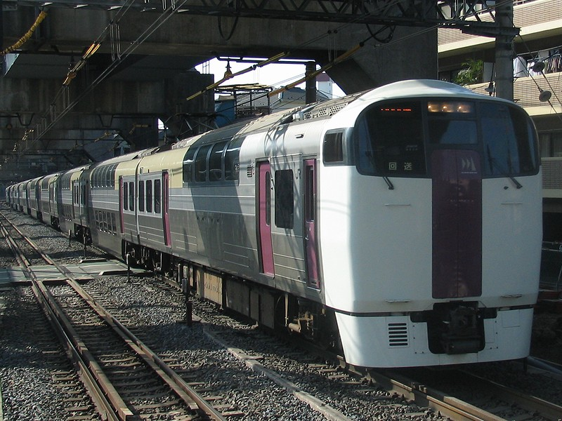 JR東日本215系 TYPE-215 runs in East Japan Railway company at Nishi-Oi station